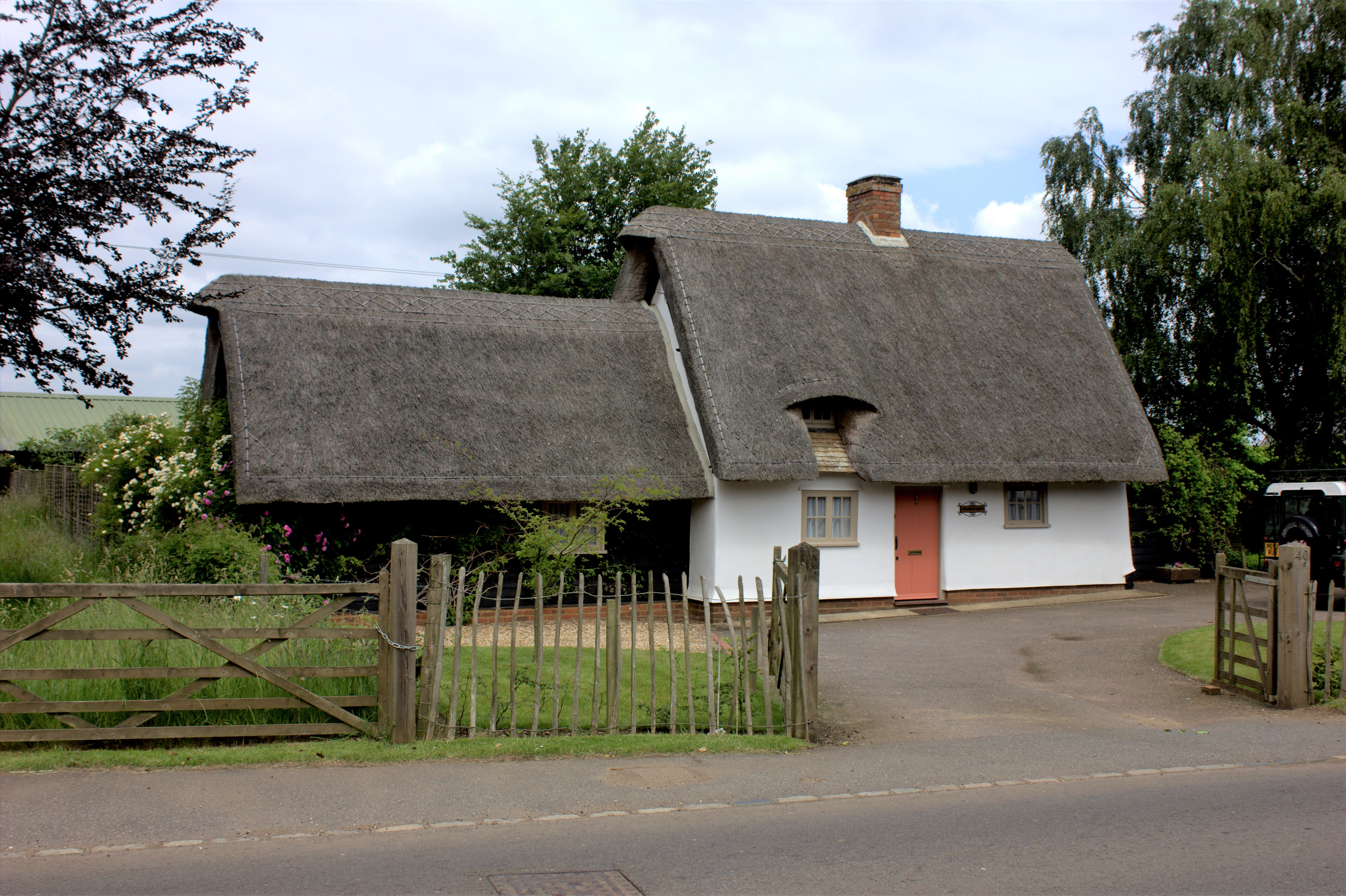 Thatched cottage, Everton, Bedfordshire